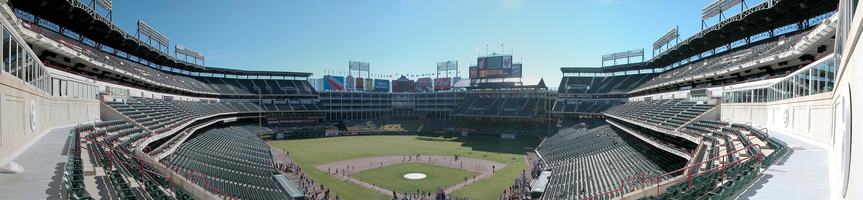 06:01, 9 September 2006 . . Dopefish . . 2816×654 (389,567 bytes) (A panoramic shot of the Ballpark in Arlington that I took myself on February 1, 2003.)